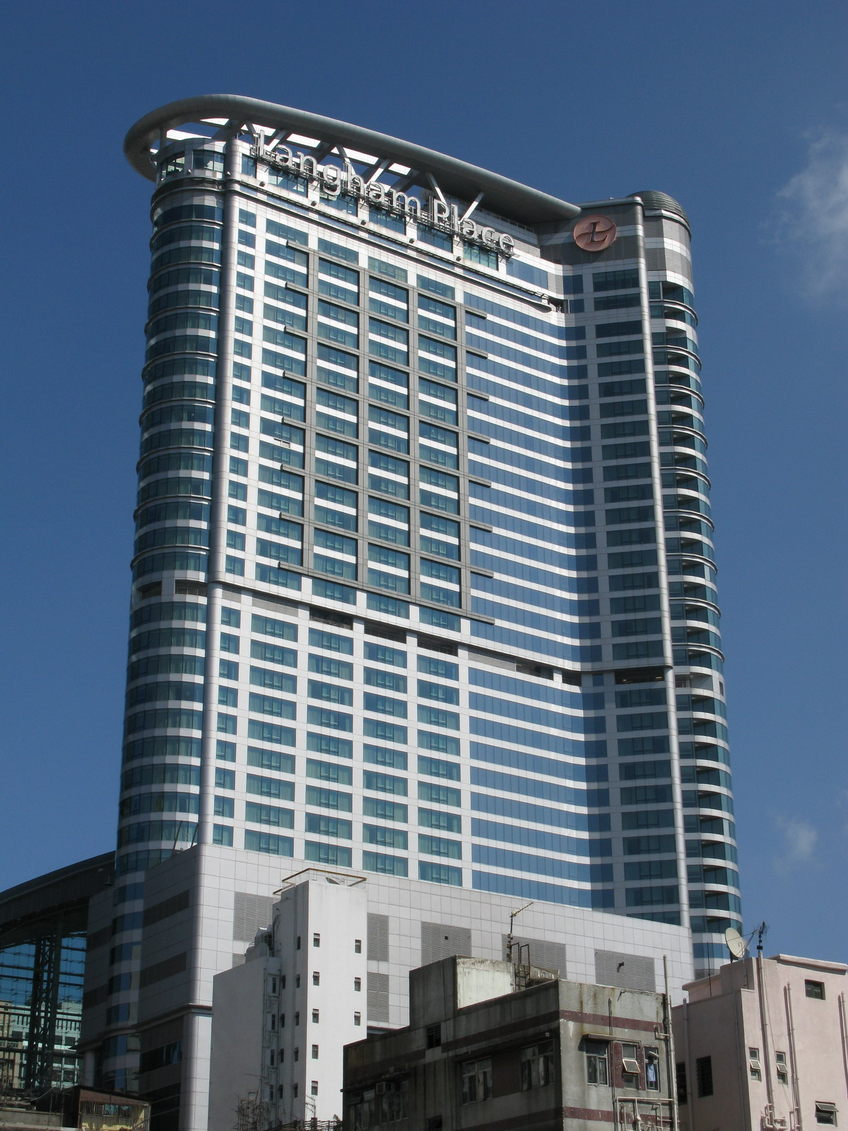 Langham Place Hotel